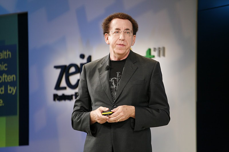 Dr. Dean Ornish speaking at Google Zeitgeist 2011